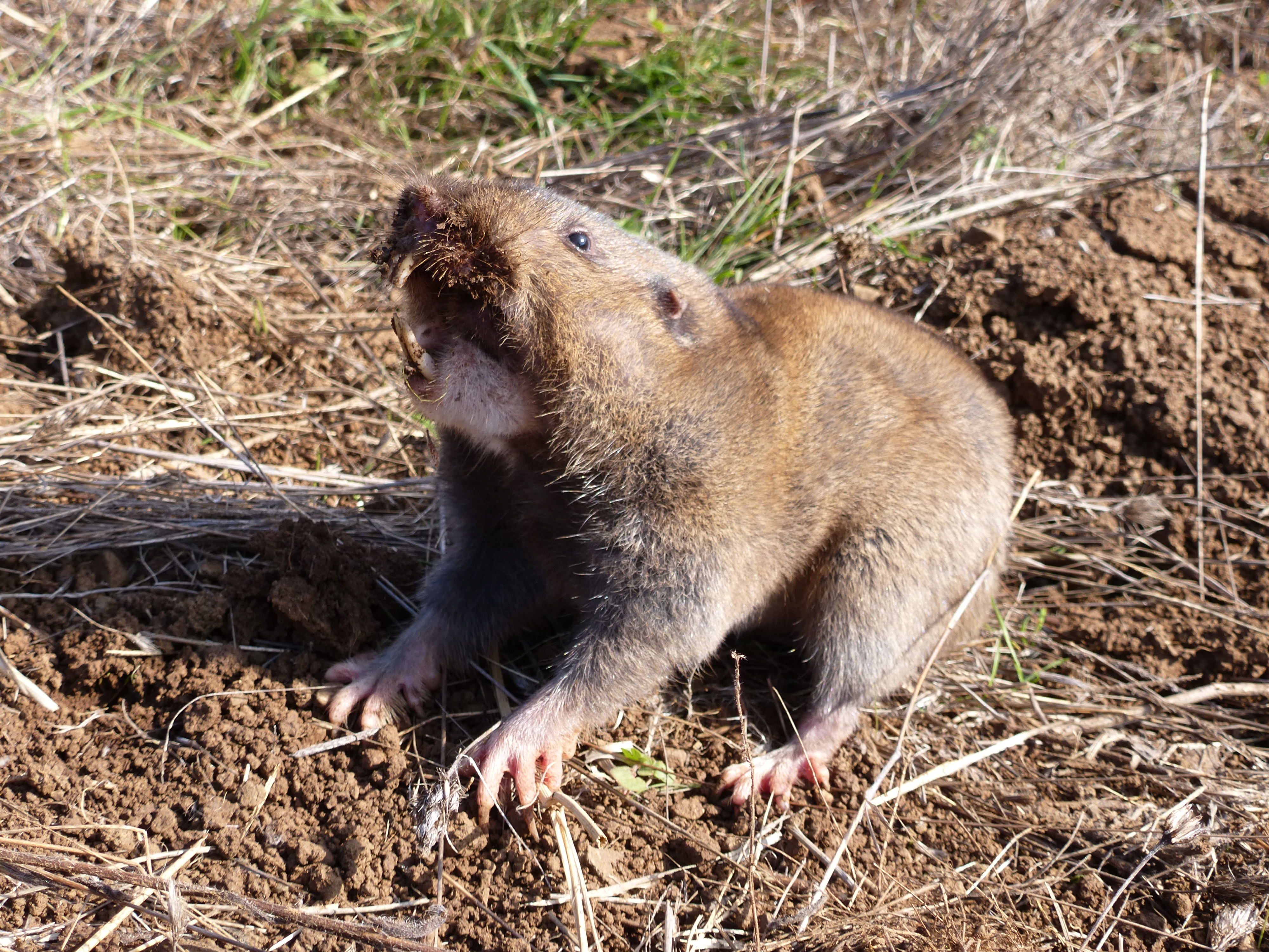 Photograph taken on habitat restoration site where the gophers were being trapped out of concern that they were destroying sensitive vegetation. Due to the trap being too small, the animal's nose was caught for an indeterminate amount of time. Camas pocket gophers are the largest member of the species and are frequently too large for conventional traps. They can be tame, but fierce when in a defensive position.